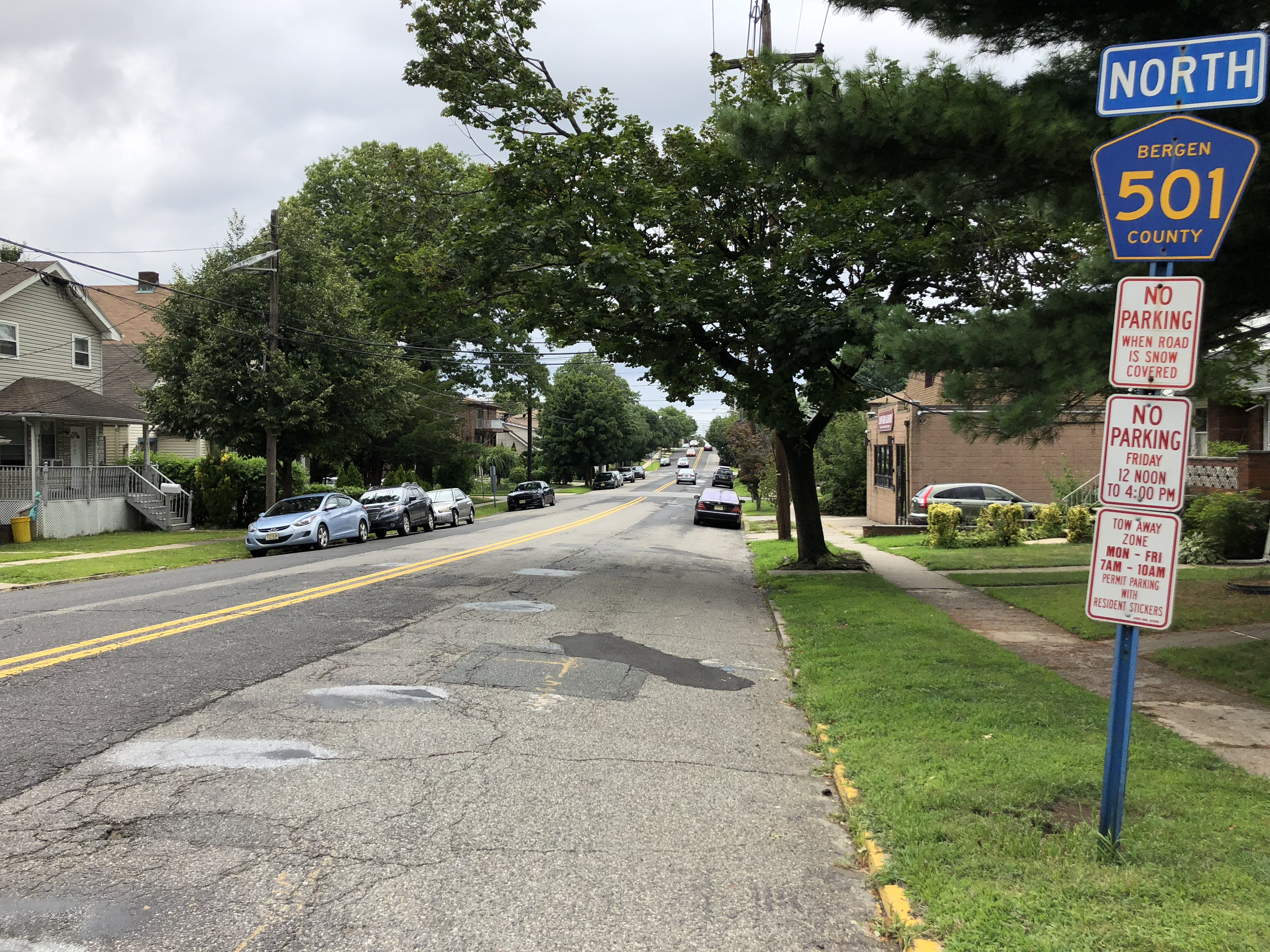 View north along Bergen County Route 501 (Central Boulevard) at 5th Street in Palisades Park, Bergen County, New Jersey